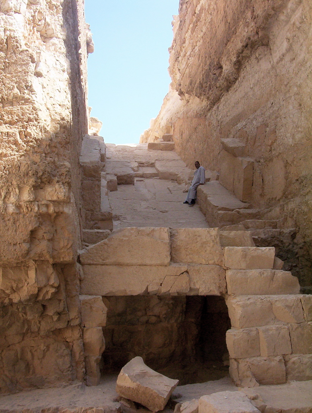 I took this photo myself in 2005.